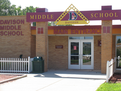 Davison Middle School, Davison, Genesee County, Michigan